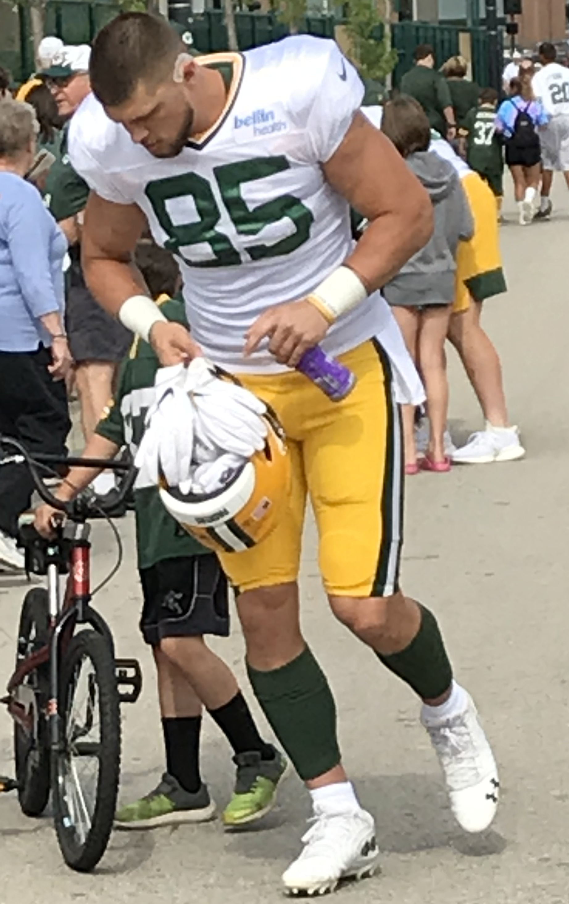 Green Bay Packers tight end Robert Tonyan before a training camp practice on August 13, 2019.